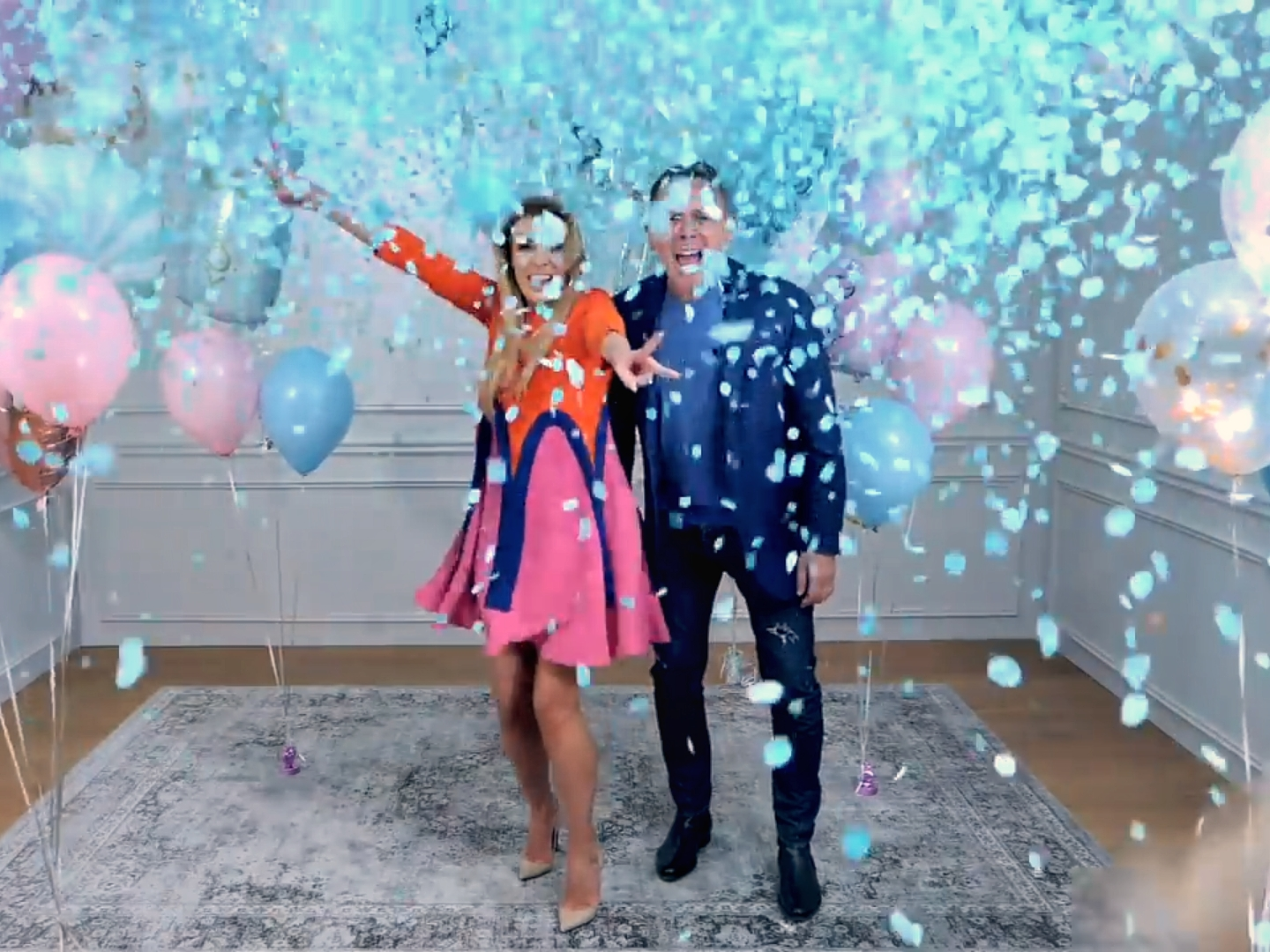 A couple celebrates a gender reveal with blue confetti suggesting a baby boy